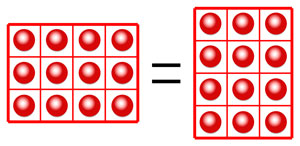 Illustration of multiplication's commutativity with geometry